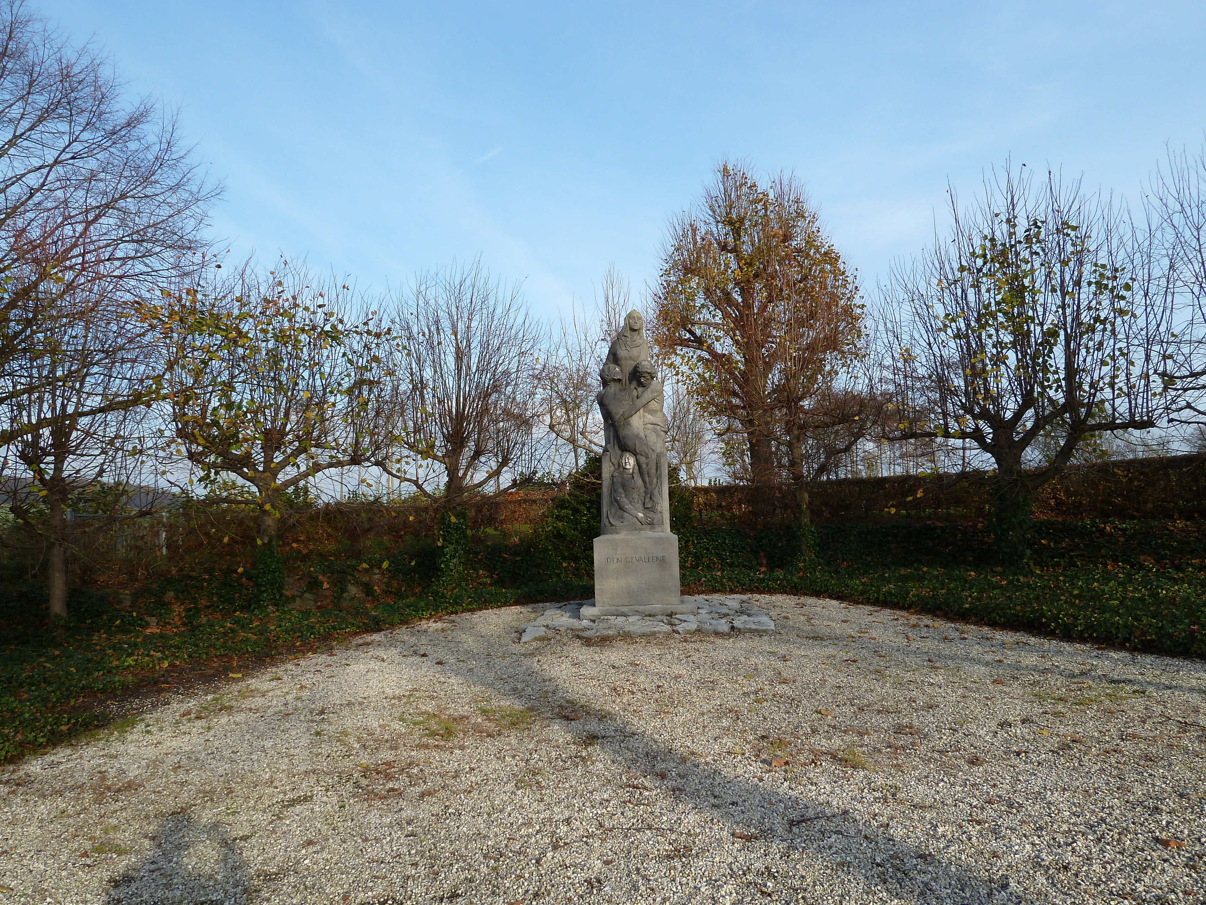 Monument for the fallen, Eys, Limburg, the Netherlands